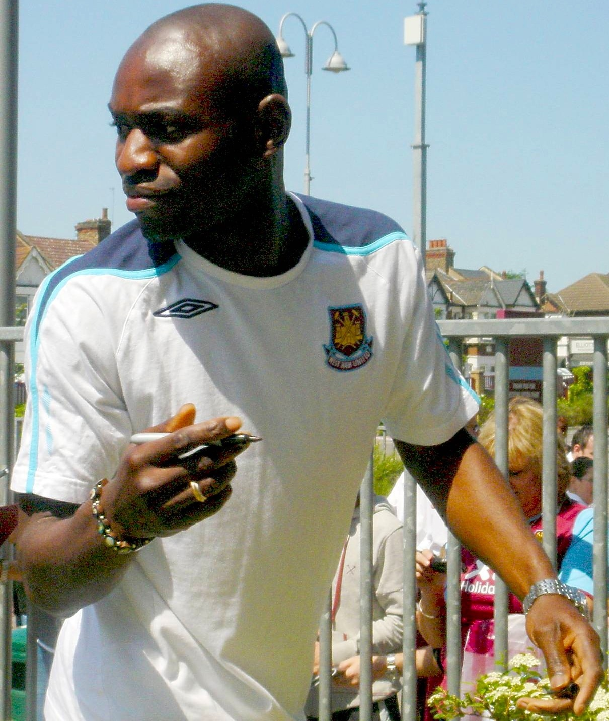 West Ham player Herita Ilunga signs for fans.